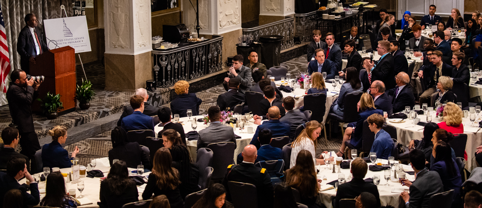 United States Senate Youth Program